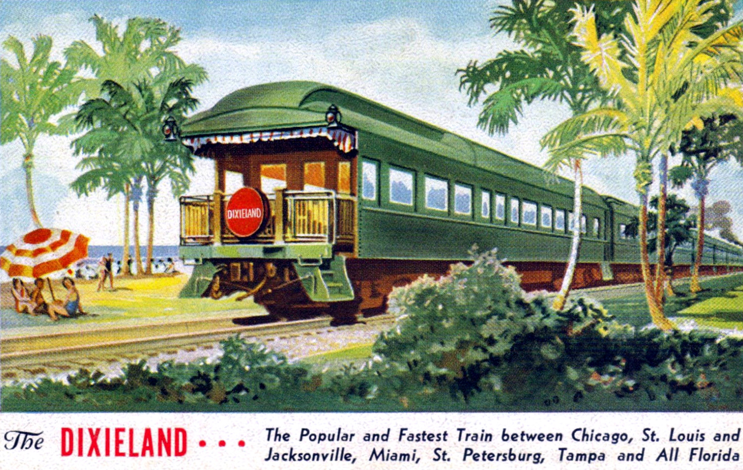 Postcard depiction of The Dixieland. The train traveled between Chicago and St. Louis to various Florida cities. It was handled by three railroads-Chicago and Eastern Illinois, Louisville and Nashville and New York, Chicago and St. Louis Railroads.